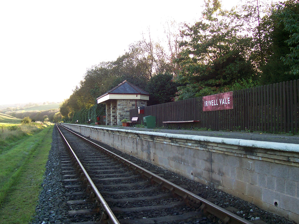 Photograph of the Irwell Vale Railway Station (formerly Irwell Vale Halt) as it is under the East Lancashire Railway heritage railway company. Photo taken in October 2007.